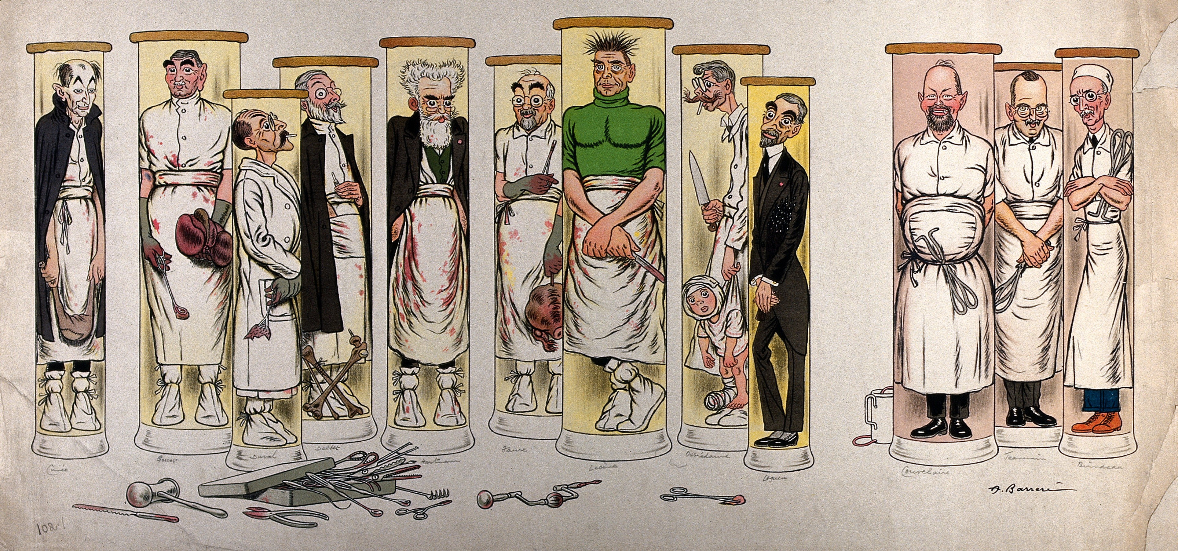 Henri Hartmann (1860-1952) was a French surgeon, best known for Hartmann's operation, a two-stage colectomy. Jean-Louis Faure